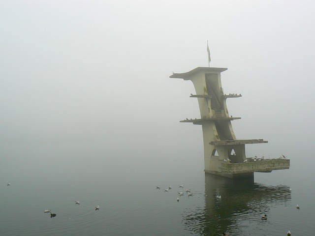 Art deco diving board, Coate Water, Swindon. The 1930s diving board is seen in morning mist together with its resident population of mostly pigeons and gulls.